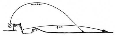 Modified drawing comparing trajectories of guns and mortars